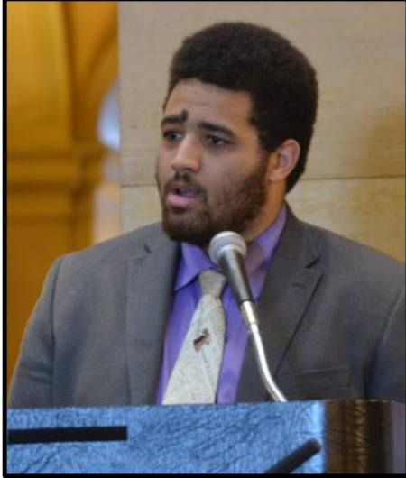 This is a close up portrait photo of Disability Advocate Noah McCourt. he is speaking at disability day on the hill and standing in the rotunda of the Minnesota State Capitol at a podium. He is surrounded by Marble walls